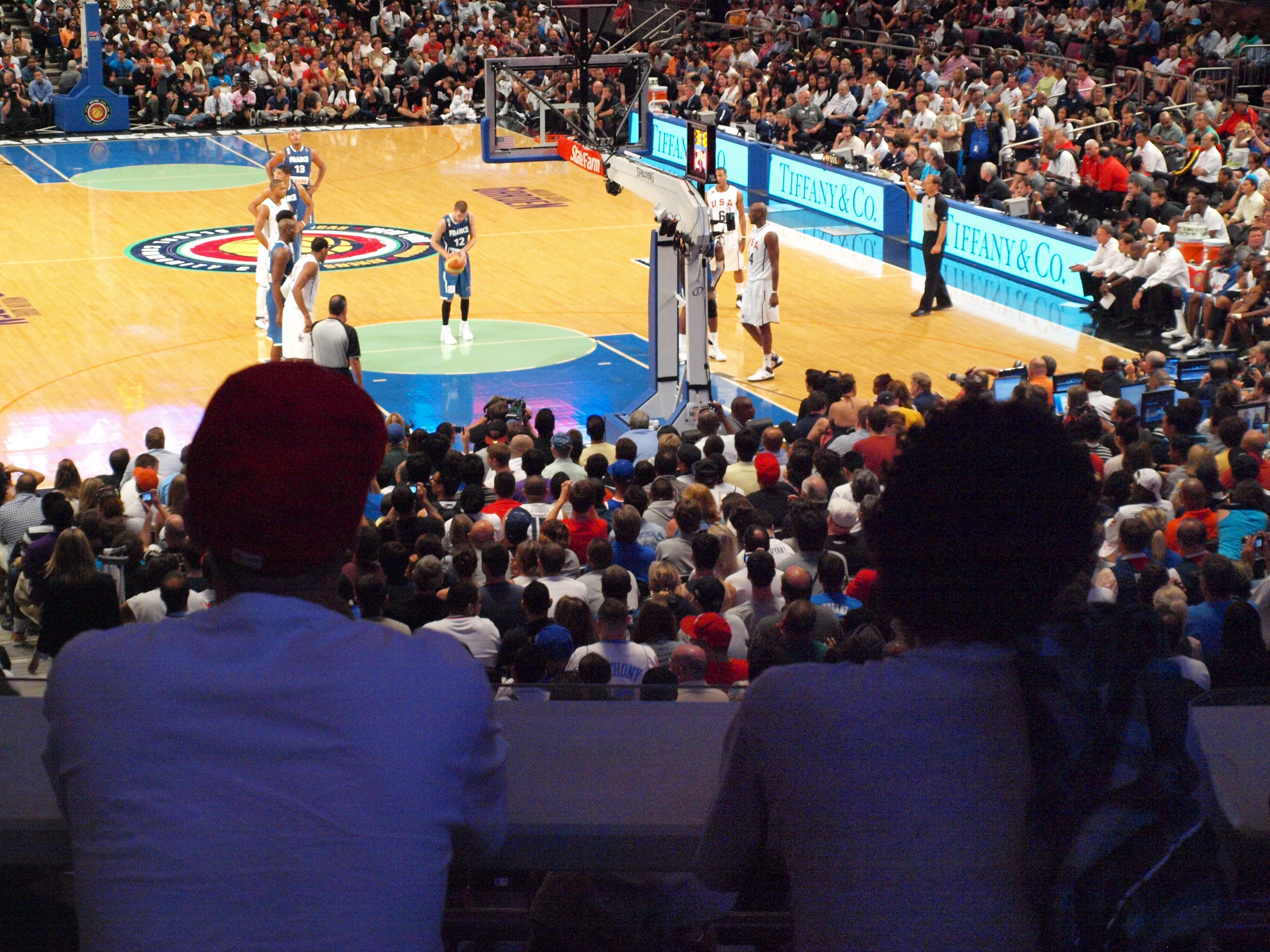 Nando de Colo is preparing to shoot a free throw at the World Basketball Festival 2010, during United States vs France game, August 15 in New York.